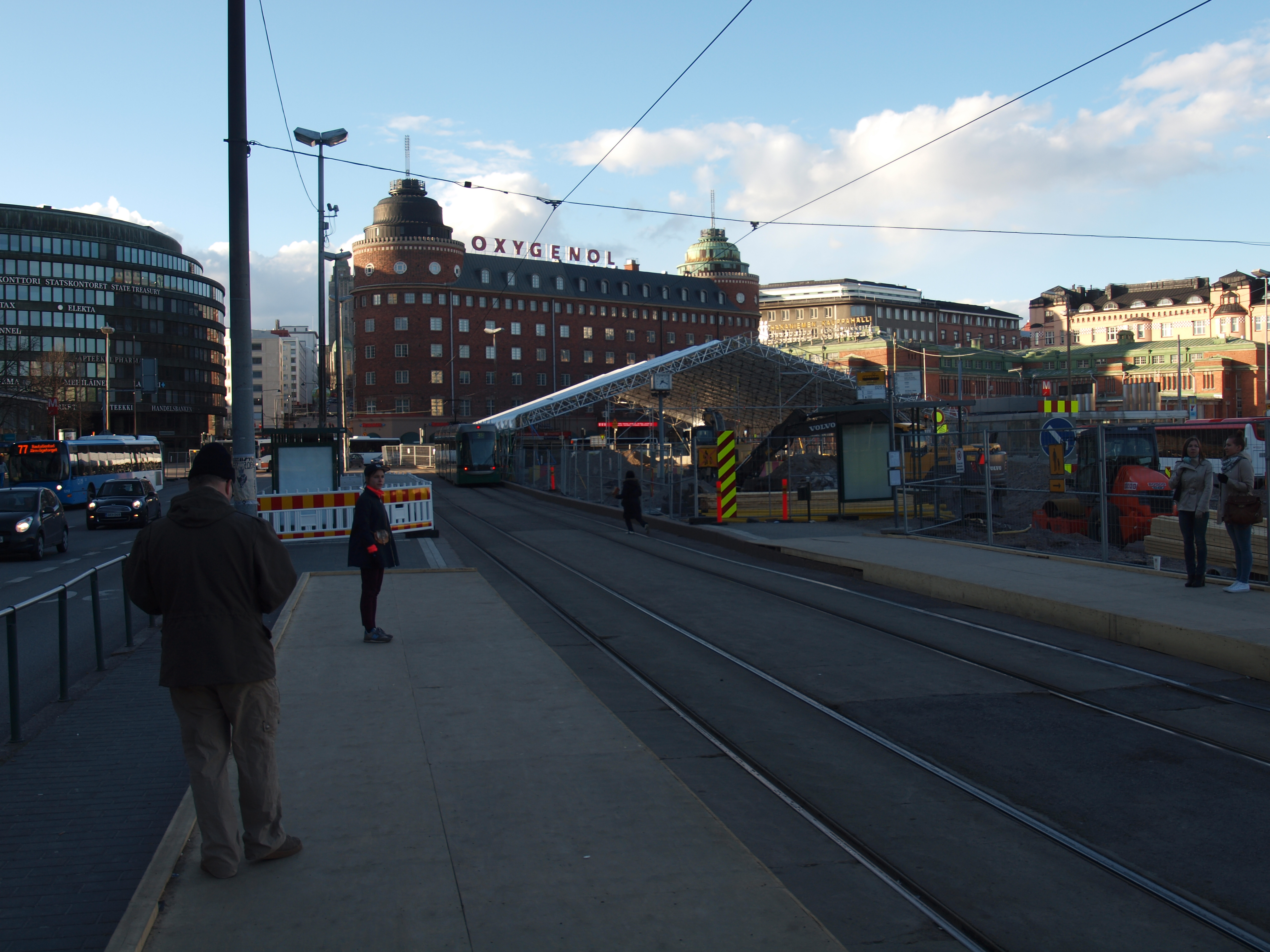 The entrance to the Hakaniemi metro station in Helsinki, Finland, under renovation. This renovation has cut off all tram traffic on Hämeentie between Hakaniemi and Sörnäinen. Metro trains and buses operate normally.